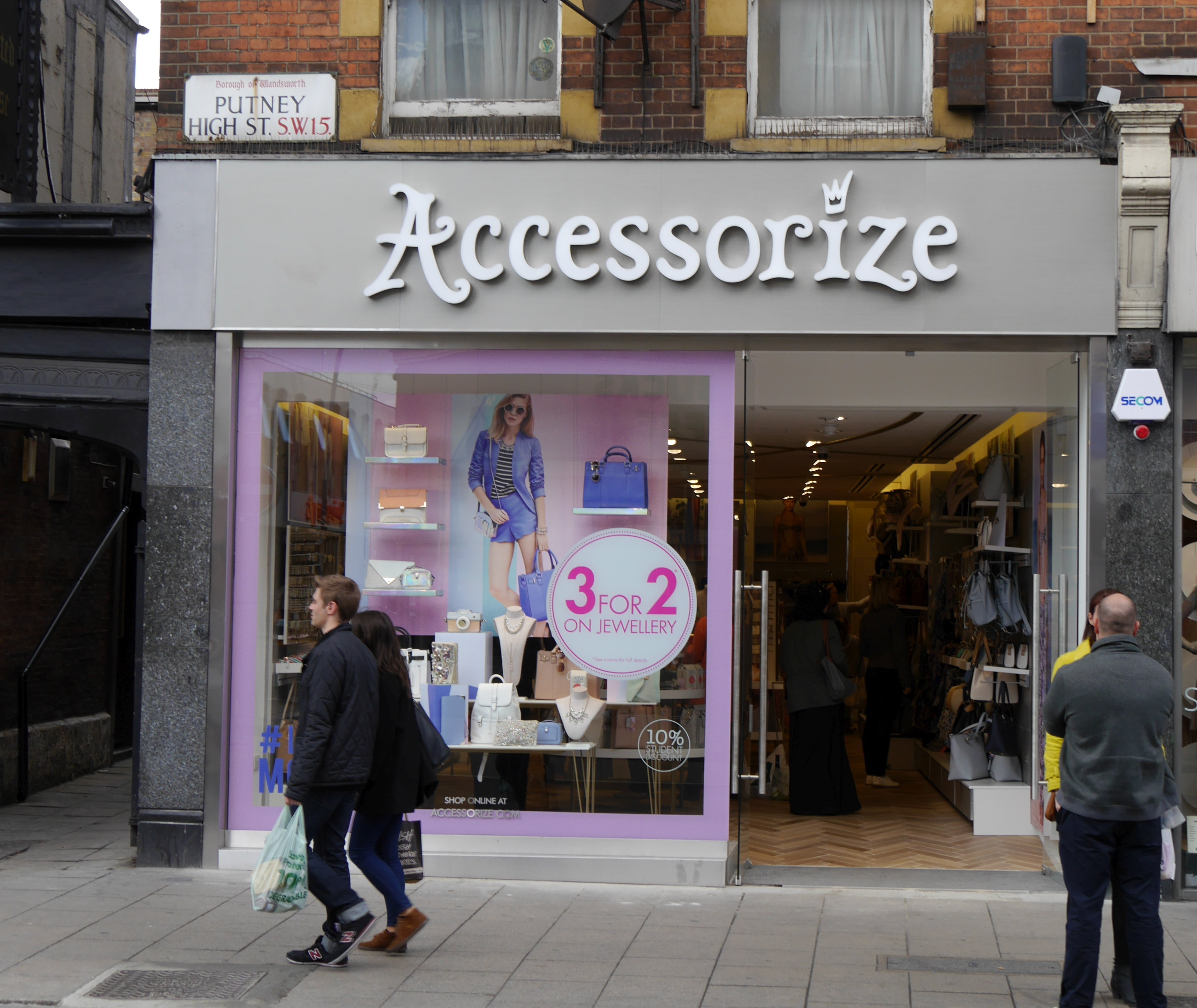 Accessorize, Putney, London